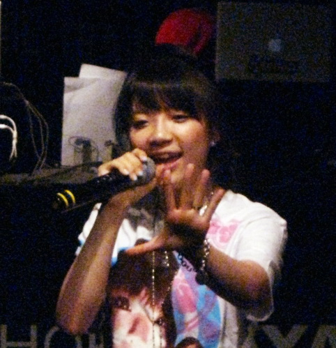 Korean rapper E.via at her performance on July 11, 2009. Српски (ћирилица): Корејска реперка Ивија на њеном наступу 11. јула 2009. Srpski (latinica): Korejska reperka Ivija na njenom nastupu 11. jula 2009.